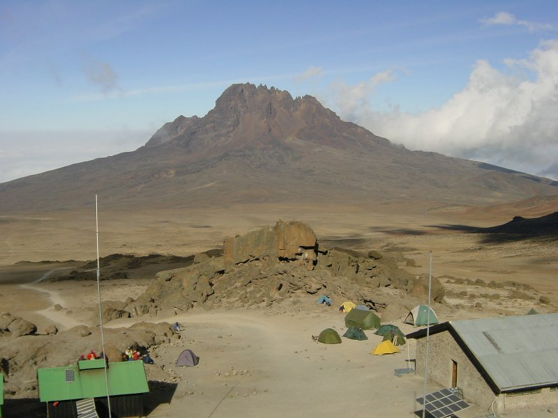 Mawenzi, Mountain in Kilimanjaro area, in Tanzania. Seen from Kibo hut (in foreground).